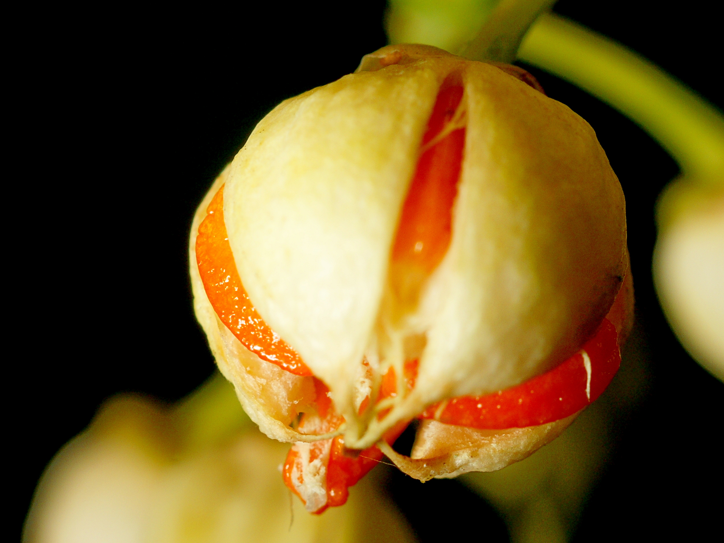 The fruit of Fortune's spindle (Euonymus fortunei (Turcz.) Hand.-Mazz. 'Agathe') at the Botanical Garden Darmstadt, Germany